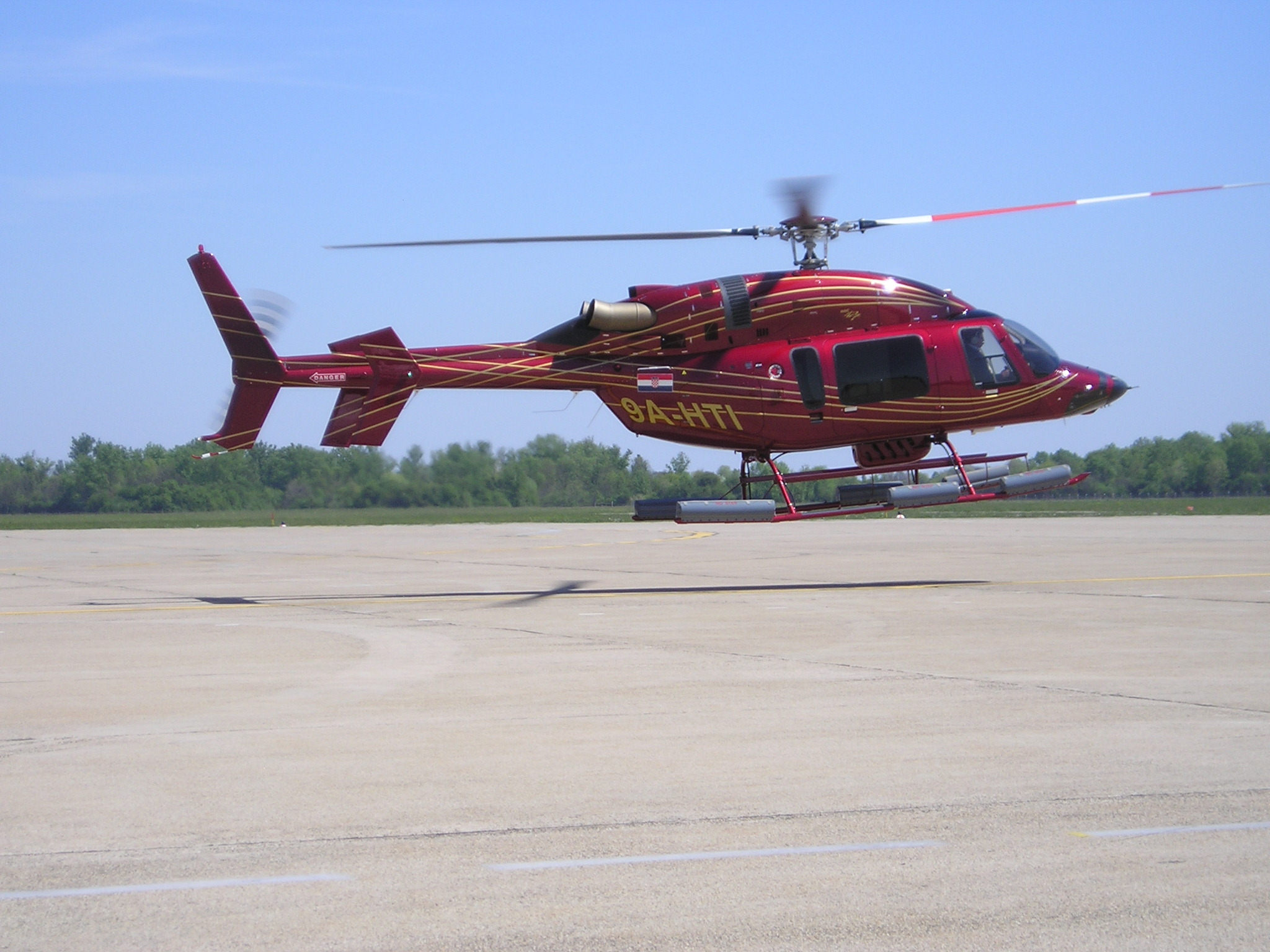 Helicopter Bell-427 at Zagreb airport (Croatia)